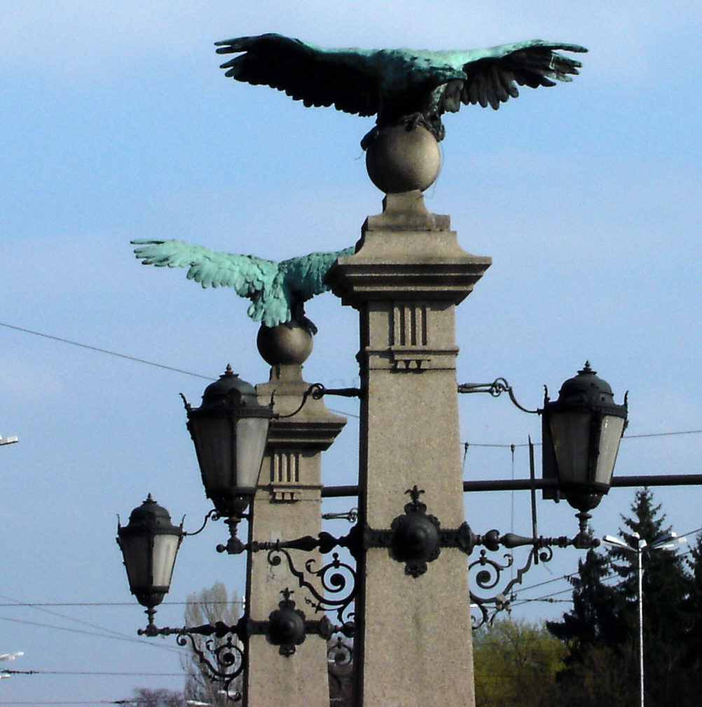 Lanterns and eagles on the Eagles bridge, Sofia, Bulgaria